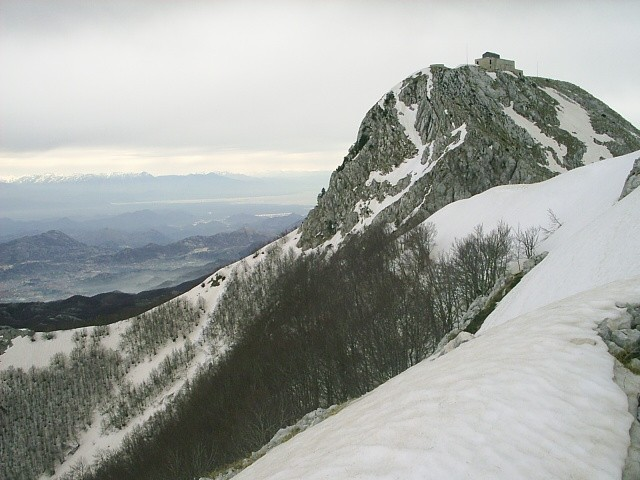 Lovćen mountain, Montenegro